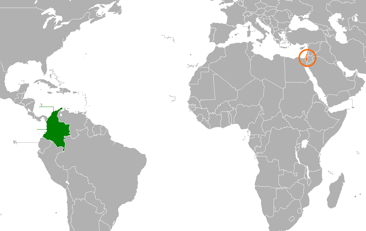 Map locator of Colombia and Israel